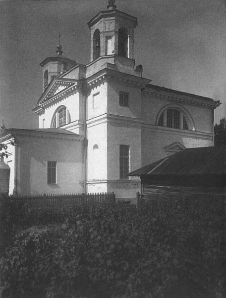 Church of Our Lady of Smolensk in Pulkovo (St. Petersburg)